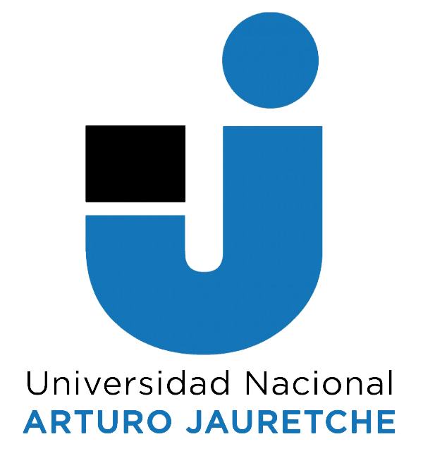 Logo of Arturo Jauretche National University of Argentina.